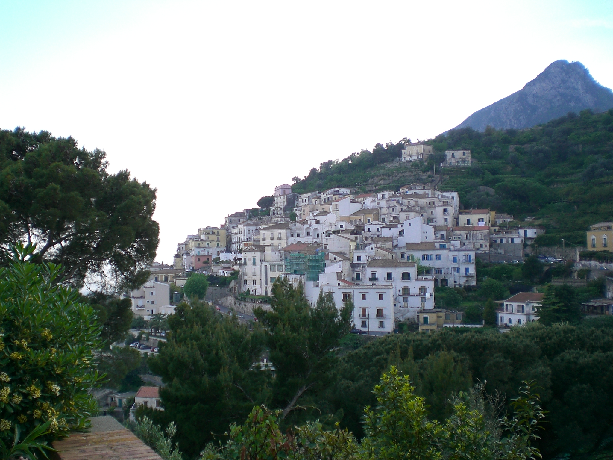 Wiev of Raito